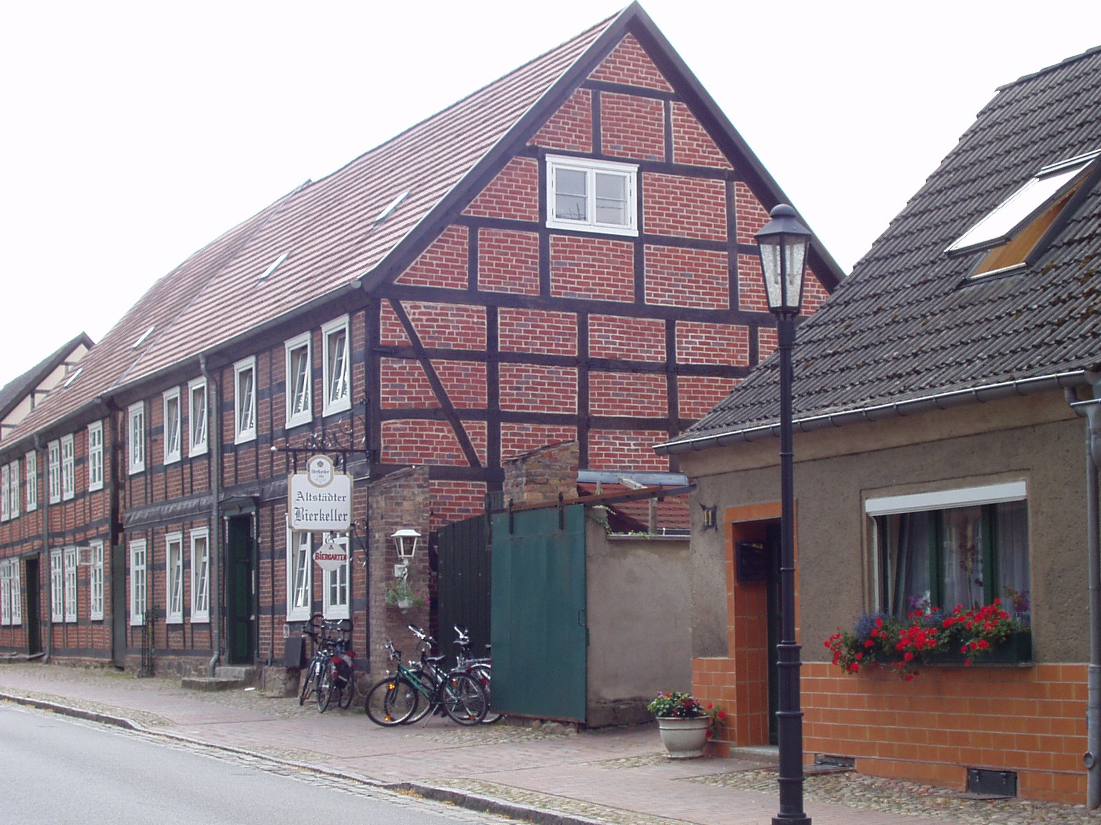 Röbel, Germany. Cityview.